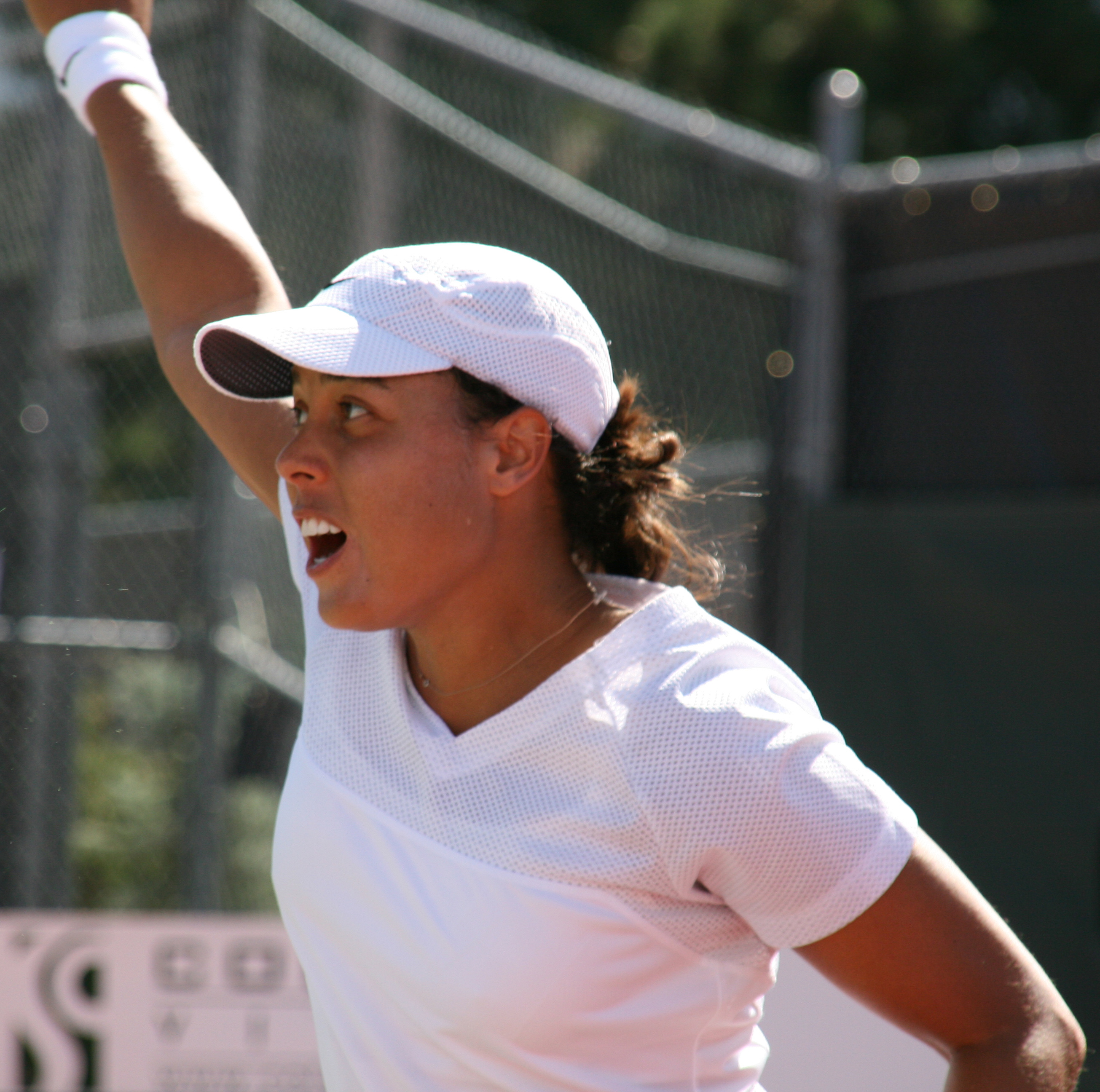 Alexandra Stevenson playing in the Coleman Vision Tennis Championships in Albuquerque, New Mexico, 2007.